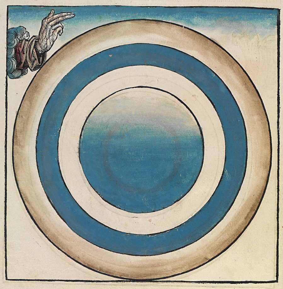 This is a part of a scan of an historical document: Title: Schedelsche Weltchronik or Nuremberg Chronicle